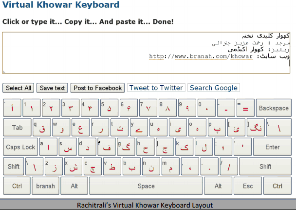 Virtual Khowar-Chitrali keyboard